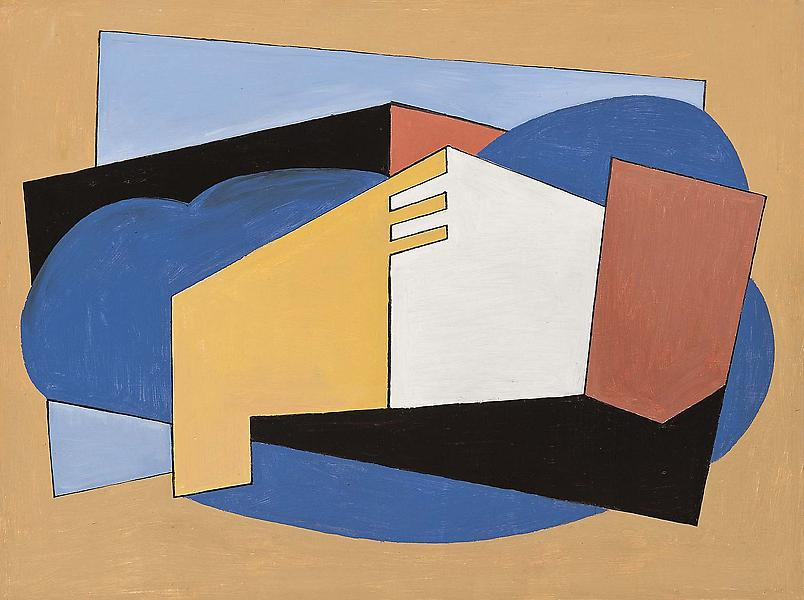 Albert Eugene Gallatin, Untitled, 1939, oil on Masonite, 15⅛ x 20¼ inches, signed and dated